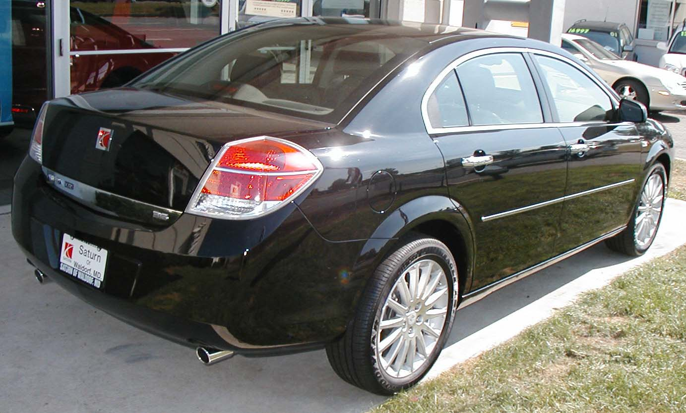 2007 Saturn Aura XR photographed in USA.